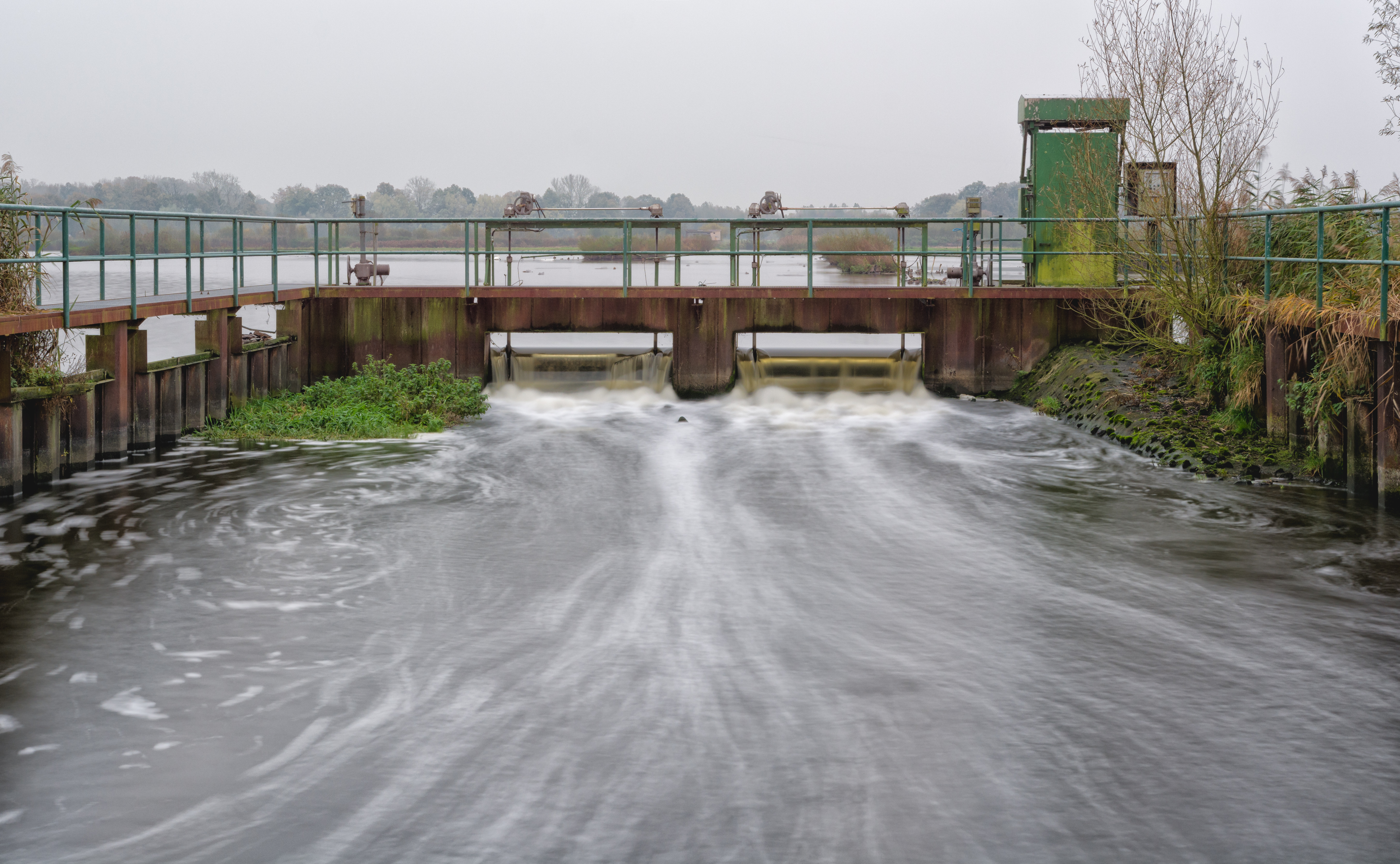 Weir at the Sewage farm near Münster